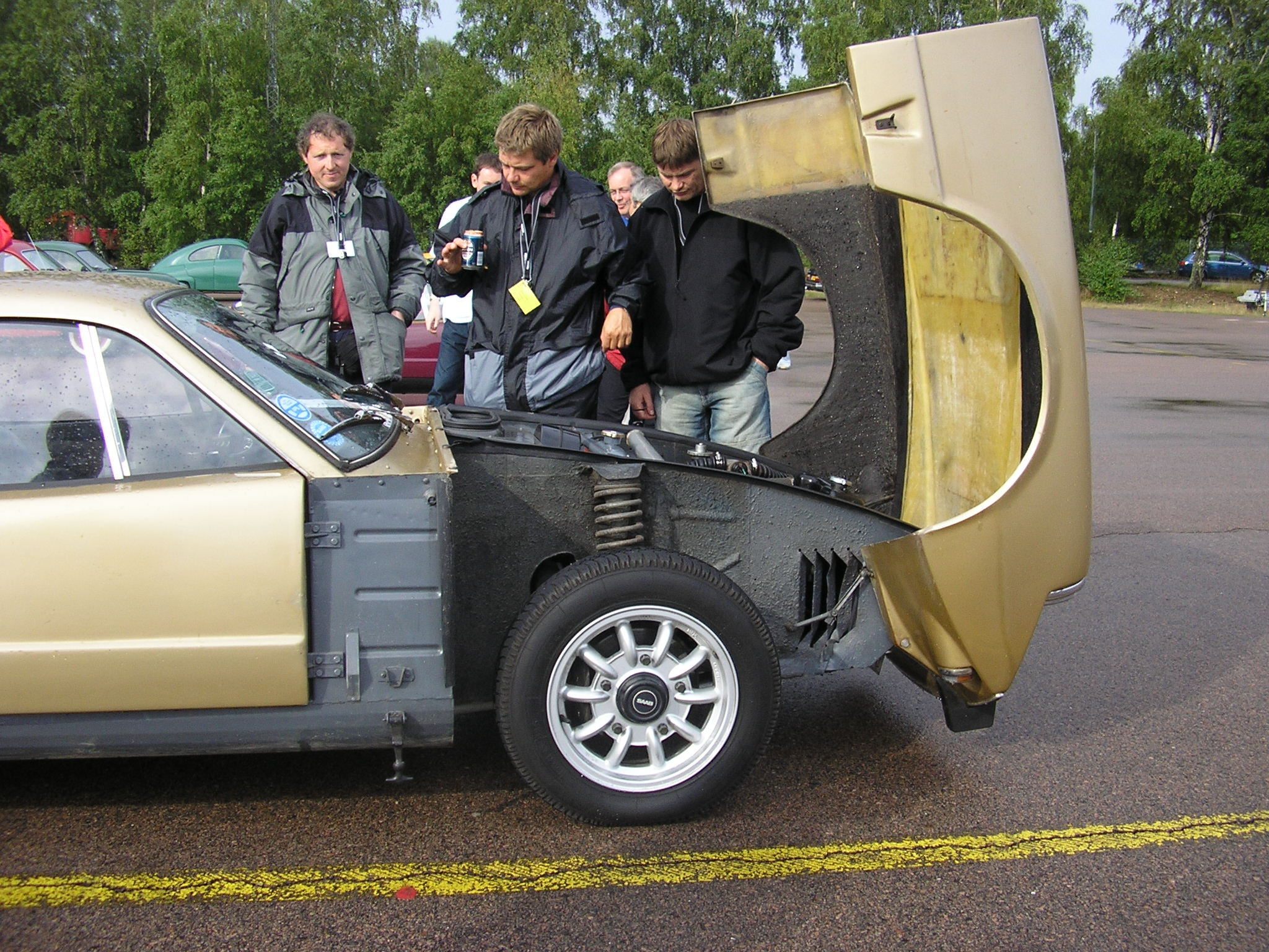 People looking into the engine may of a SAAB Sonett mk2 at the International SAAB Club Meeting 2006. Notice how the flip front provides easy access to both engine bay and suspension.